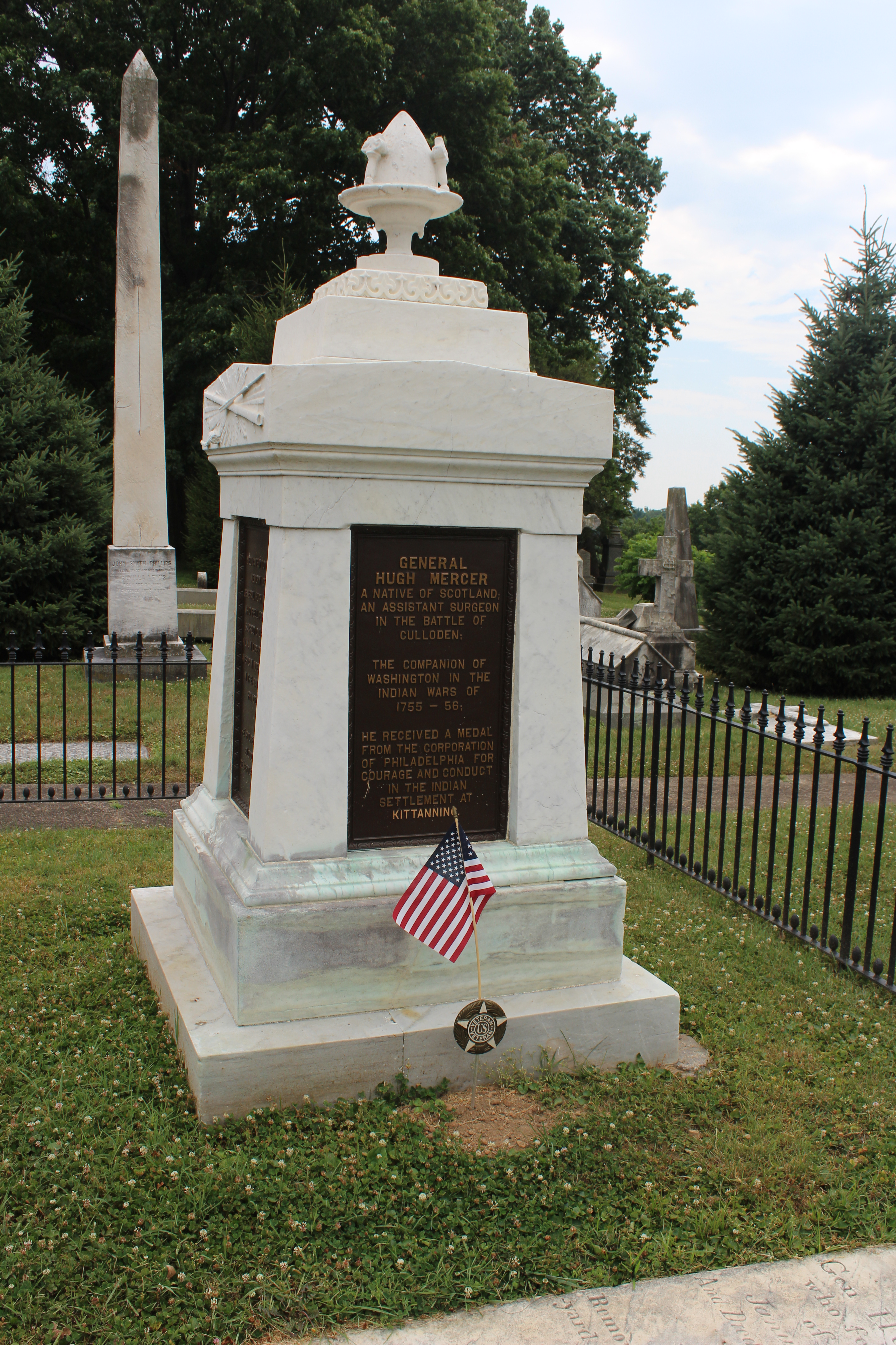 Hugh Mercer Memorial in Laurel Hill Cemetery. Photo taken July 2020.